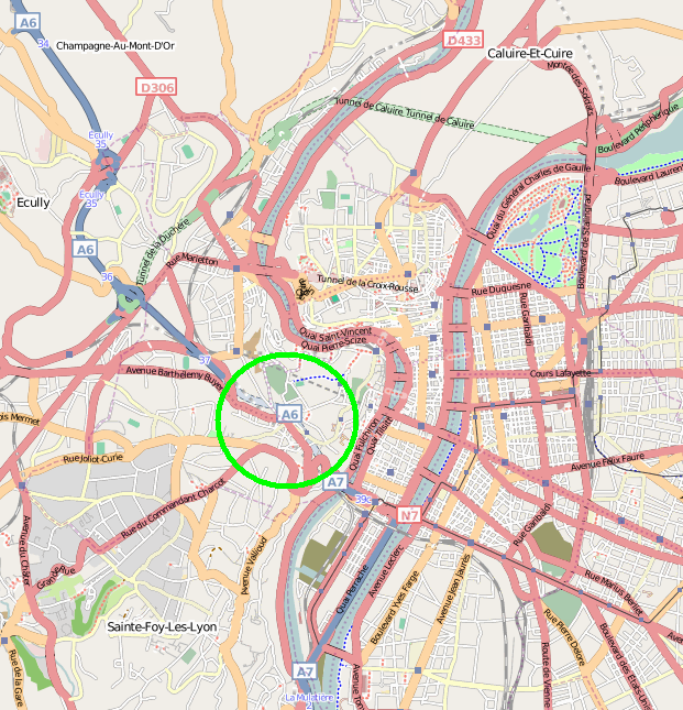 OSM_Lyon_Centre_-_Tunnel_de_Fourvière